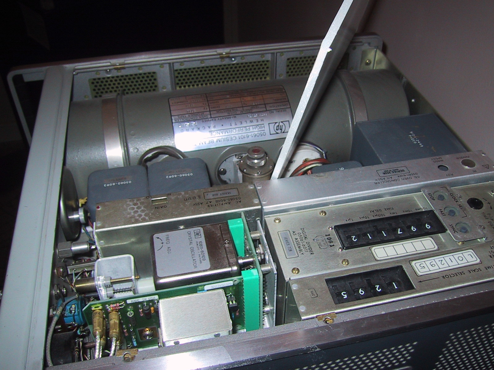 Inside of an HP 5061 cesium beam atomic clock. These are commonly used as a primary time standard in national standards laboratories and naval observatories.